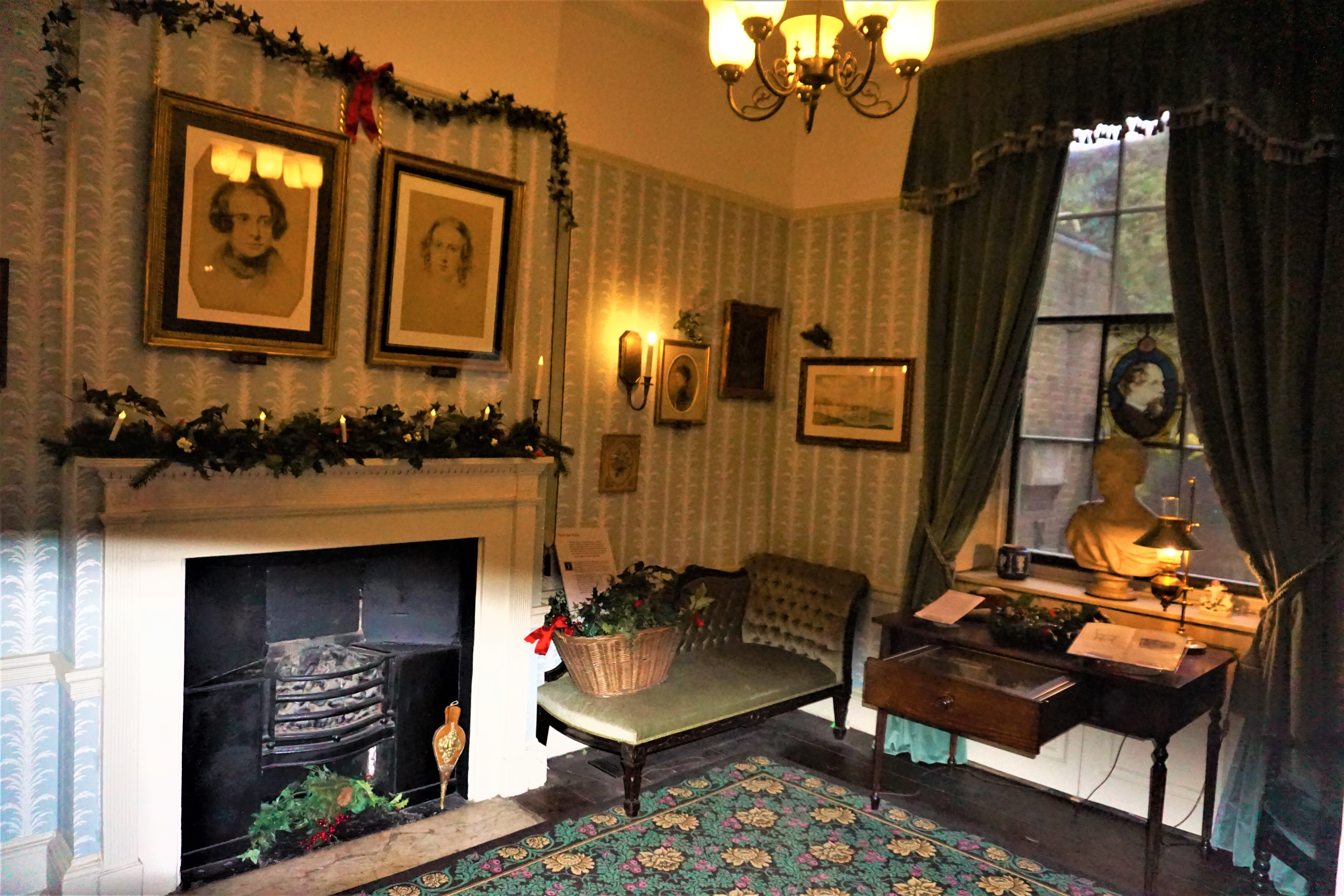 Charles Dickens Morning Room - Charles Dickens Museum - for details